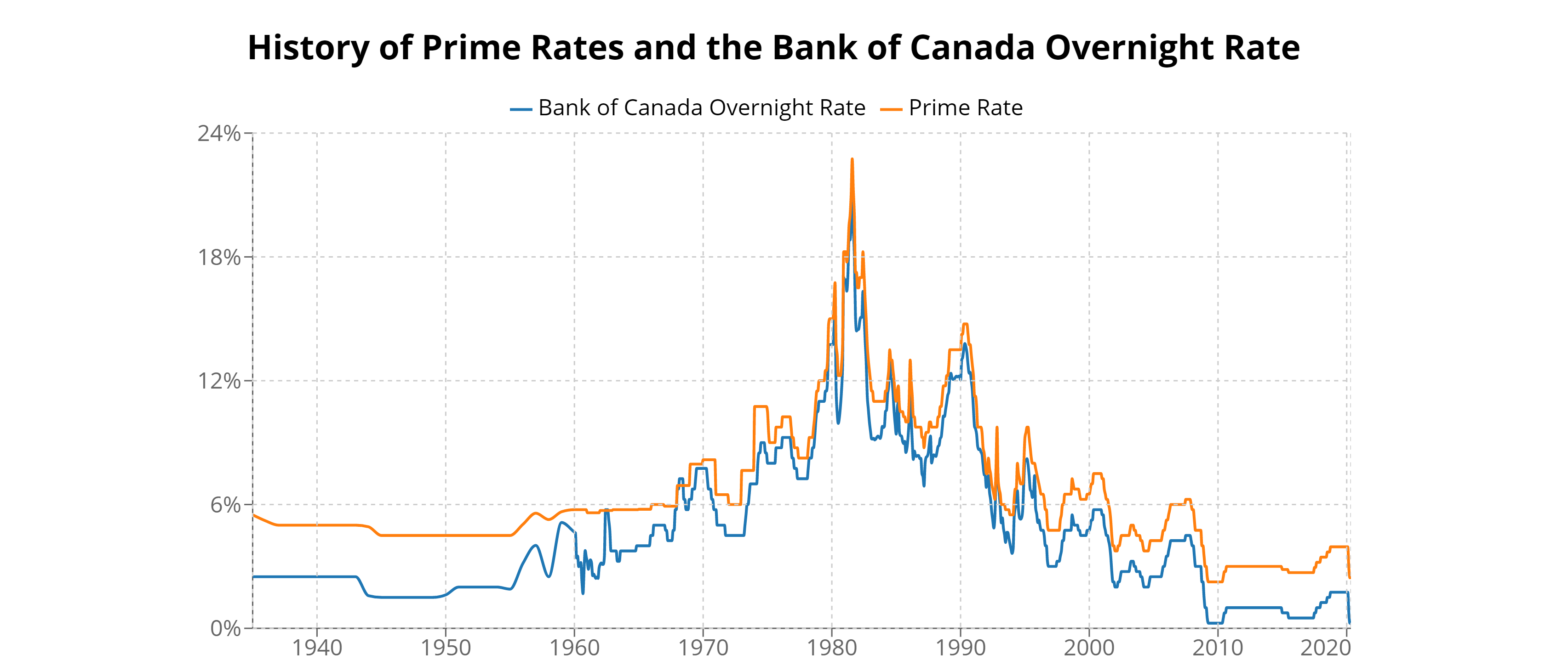 A chart visualizing historical levels of Canada's prime rate and the Bank of Canada's target overnight rate from 1935-2020